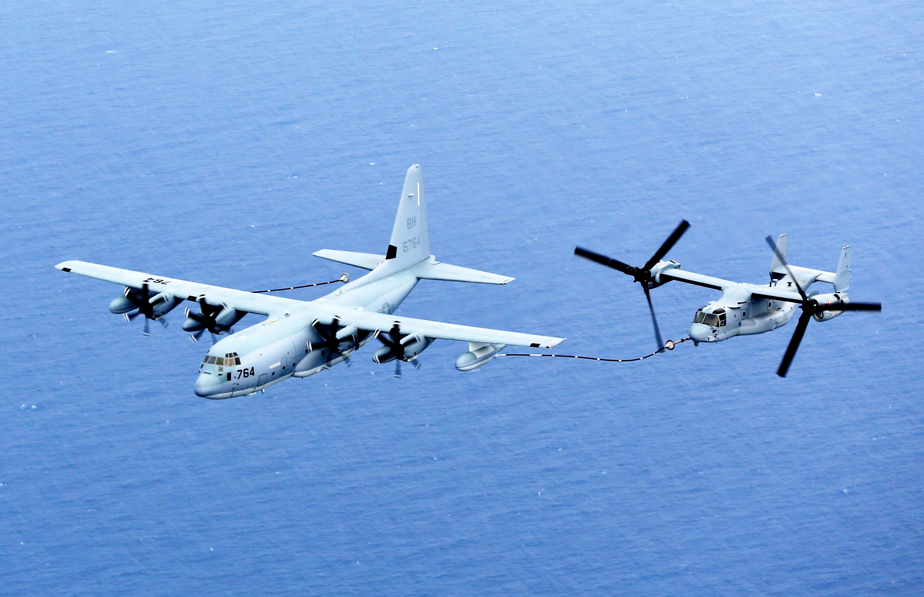 A KC-130J Hercules property of Marine Aerial Refueler Transport Squadron (VMGR) 252, refuels an MV-22 Osprey assigned to Marine Medium Tiltrotor Squadron (VMM) 264 and 266 over the Atlantic Ocean, off the coast of N.C., April 14, 2014. VMGR-252 conducted aerial refueling training with VMM-264 and 266. (U.S. Marine Corps photo by Sgt. Gabriela Garcia/Released)